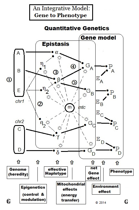 Sources of attribute correlation.